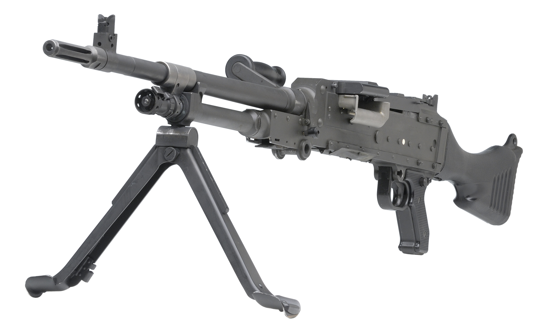 FN MAG. If you'd like to use this image, please credit FN Herstal as the author, that is the condition to be licensed under Creative Common Attribution.